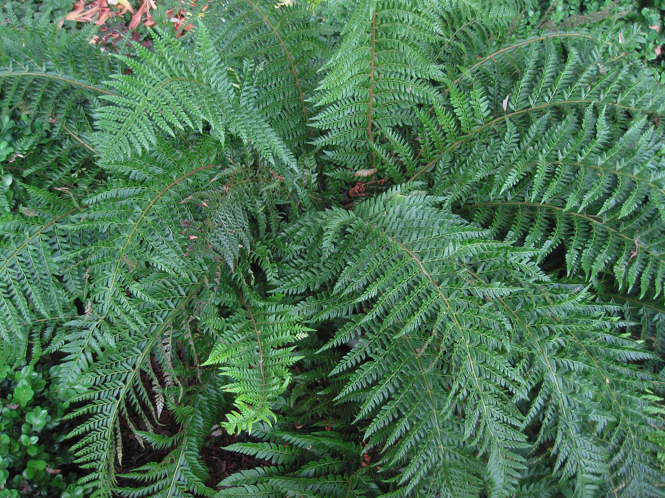 Polystichum aculeatum